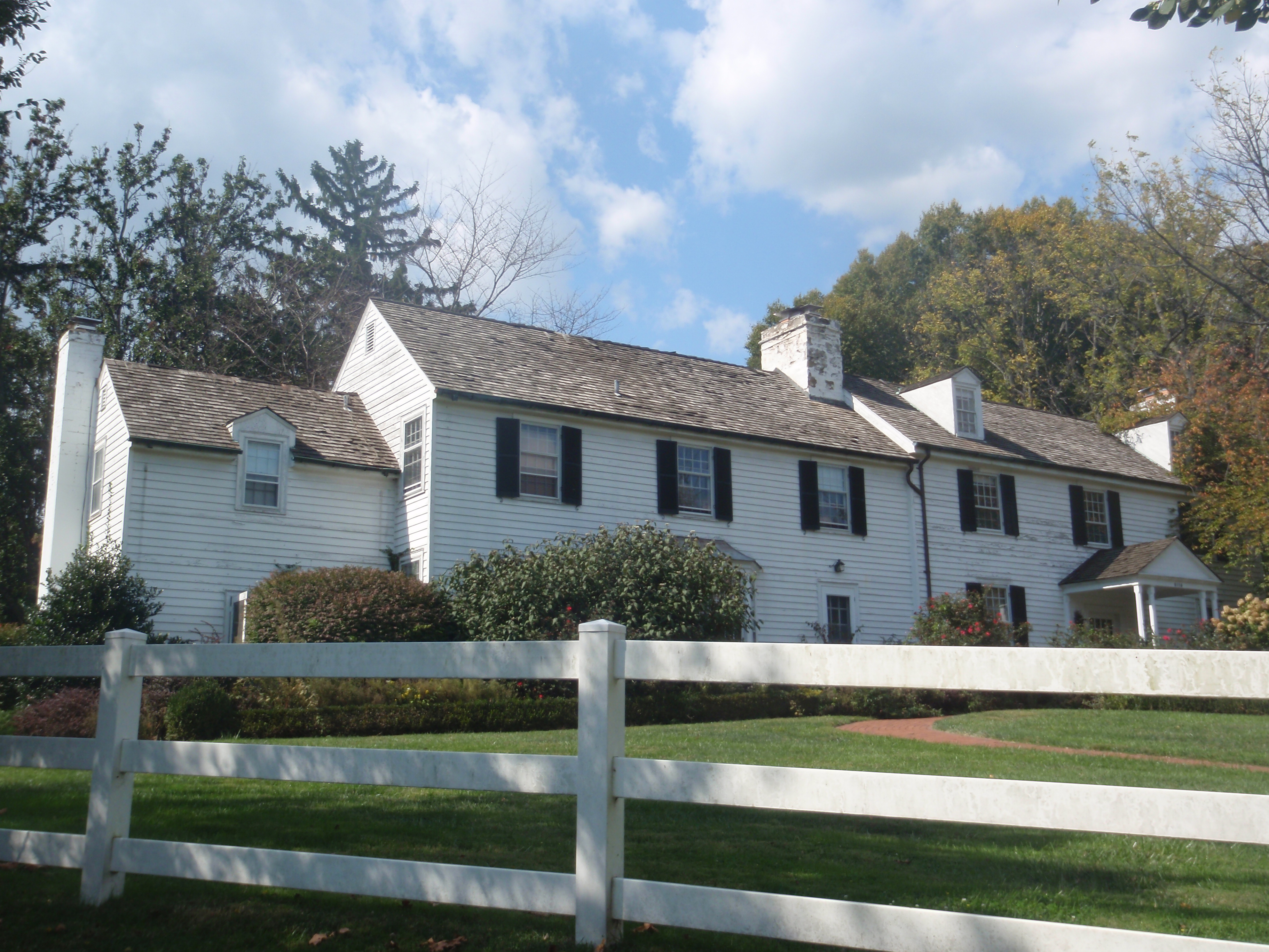 Spring Hill Farm